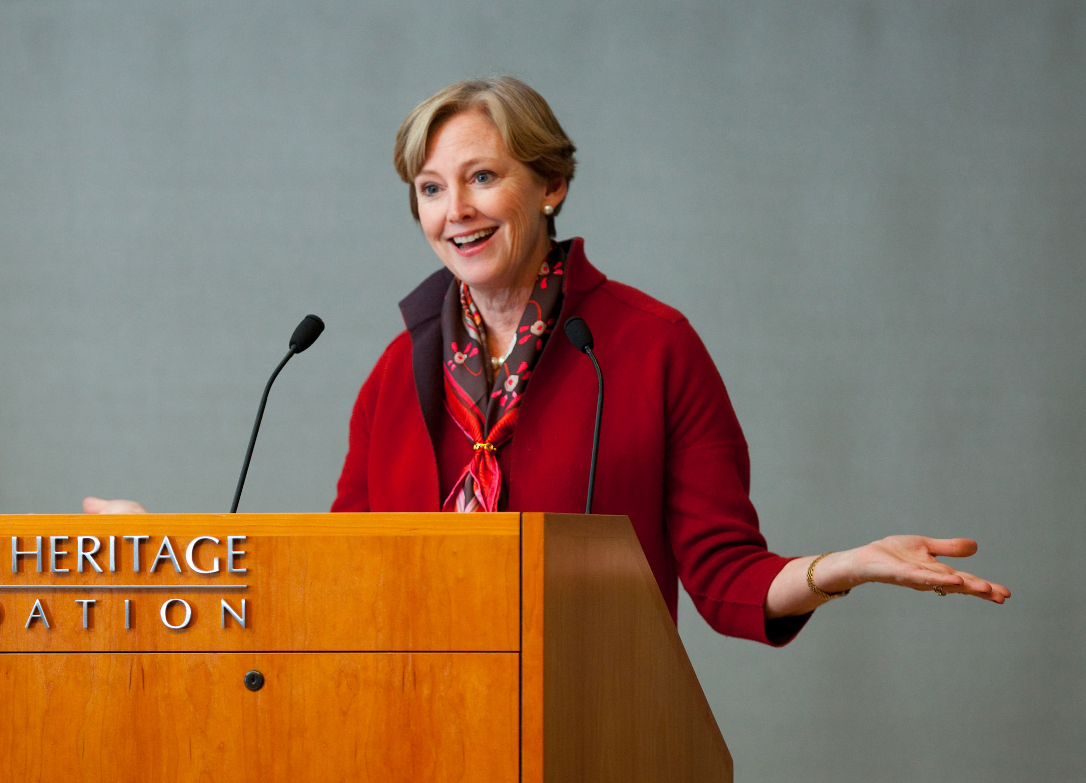 Photograph of Ellen J. Kullman, President and CEO of DuPont, at the Joseph Priestley Society, January 14, 2010, Chemical Heritage Foundation, Philadelphia, PA, USA.